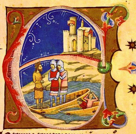 A picture taken from Chronicon Pictum, showing Buvar ("Diver") Kund (Zotmund) leaking the german emperor's ship in 1050.